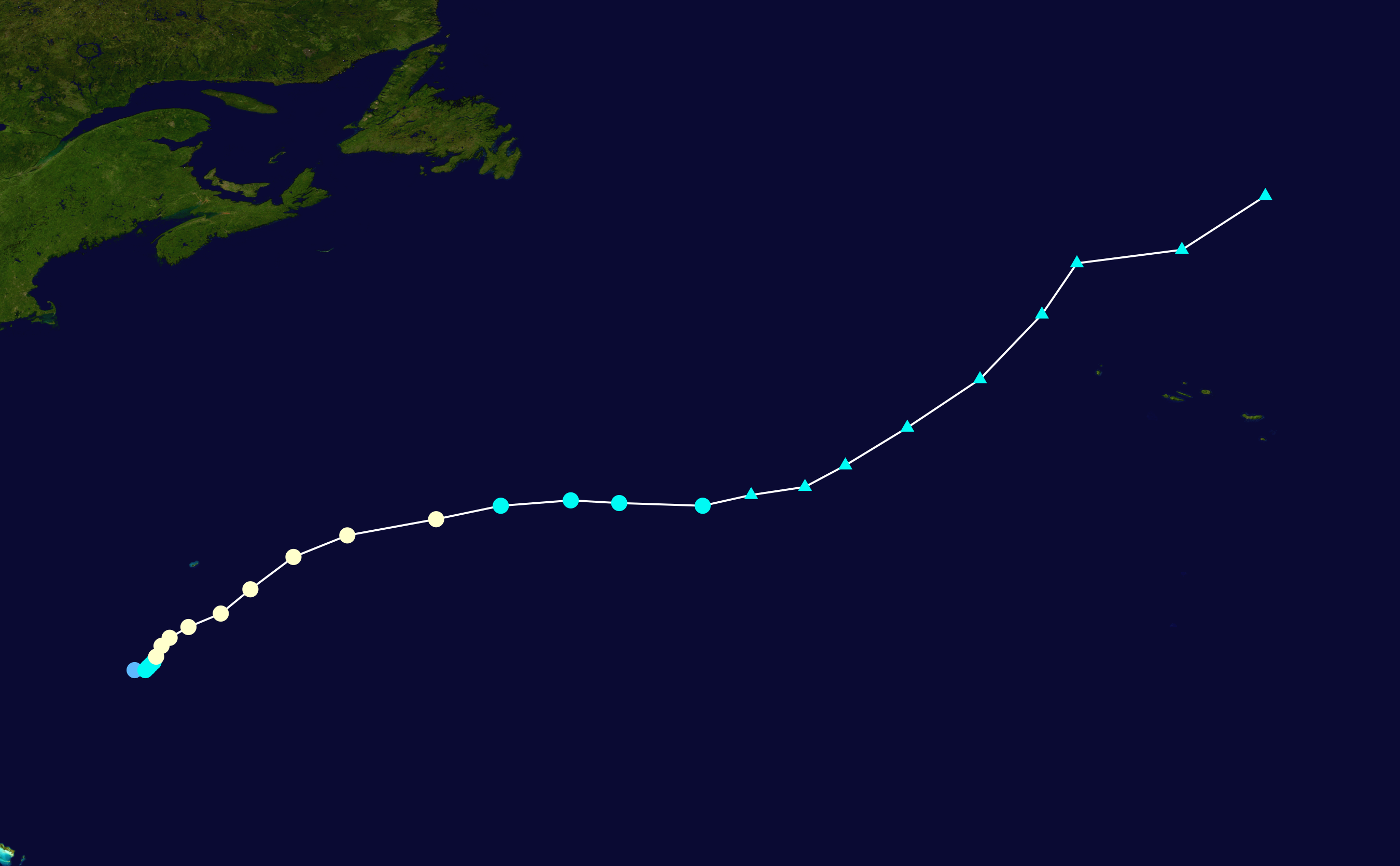 Track map of Hurricane Nate of the 2005 Atlantic hurricane season. The points show the location of the storm at 6-hour intervals. The colour represents the storm's maximum sustained wind speeds as classified in the Saffir–Simpson scale (see below), and the shape of the data points represent the nature of the storm, according to the legend below. Saffir–Simpson scale Tropical depression≤38 mph≤62 km/h Category 3111–129 mph178–208 km/h Tropical storm39–73 mph63–118 km/h Category 4130–156 mph209–251 km/h Category 174–95 mph119–153 km/h Category 5≥157 mph≥252 km/h Category 296–110 mph154–177 km/h Unknown Storm type Tropical cyclone Subtropical cyclone Extratropical cyclone / Remnant low / Tropical disturbance / Monsoon depression